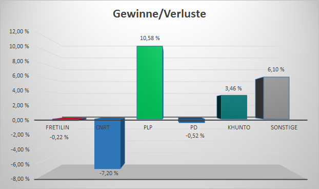 Win and lost of parties in parliament election 21 July 2017 in East Timor